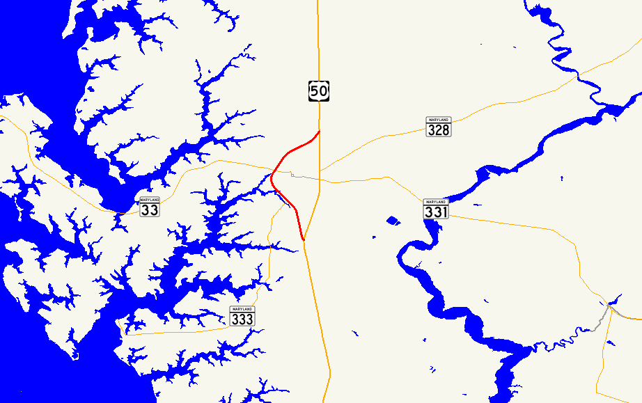 Map of Maryland Route 322